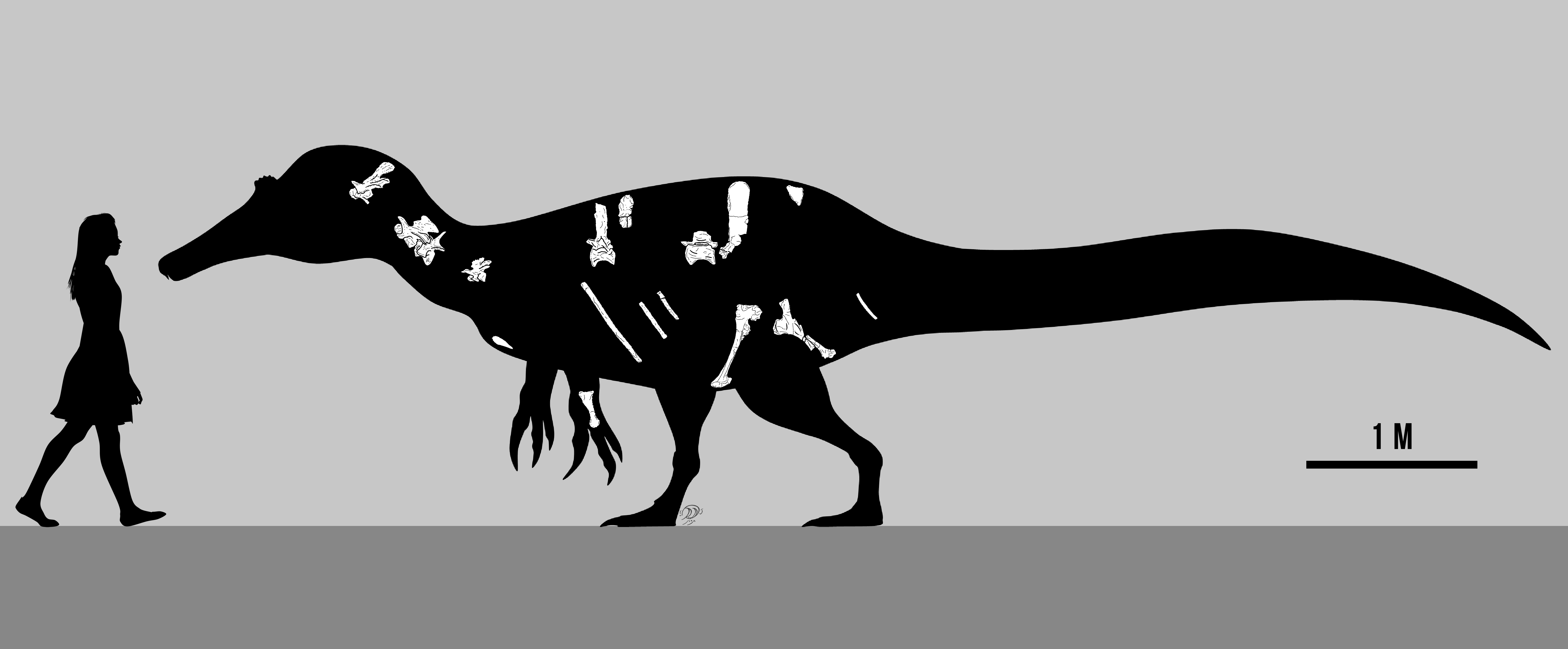 Skeletal diagram of the spinosaurid theropod specimen SM-KK14, possibly belonging to Siamosaurus suteethorni.[1][2][3][4] References: Fossil material: Samathi et al. (2019)[5] (for cervical vertebrae placement, pubis reference, and chevron morphology) Sirindhorn Museum Database (under Spinosauridae indet. & Siamosaurus suteethorni)[6] (This skeletal includes specimens SM-KK14-001 to 015, 017, 023, and 062) Missing parts of anatomy (silhouette) reconstructed after Baryonyx walkeri (much of skull, neck and rest of body), Suchomimus tenerensis (forelimbs, spinal column; sail), Romualdo Formation Spinosaurinae (forelimbs), Ichthyovenator laosensis (part of neck, ribs, spinal column, pelvis, and tail), Spinosaurus aegyptiacus (head crest and feet): Scott Hartman (2018).Baryonyx skeletal Francisco Bruñén (2018).Suchomimus skeletal Aureliano et al. (2018).Romualdo Spinosaurinae skeletal Alexander Vieira (2020).Ichthyovenator skeletal (contains citations as well) Ibrahim et al. (2020).Spinosaurus skeletal Deep tail anatomy also based on: Arden et al. (2018).[7]